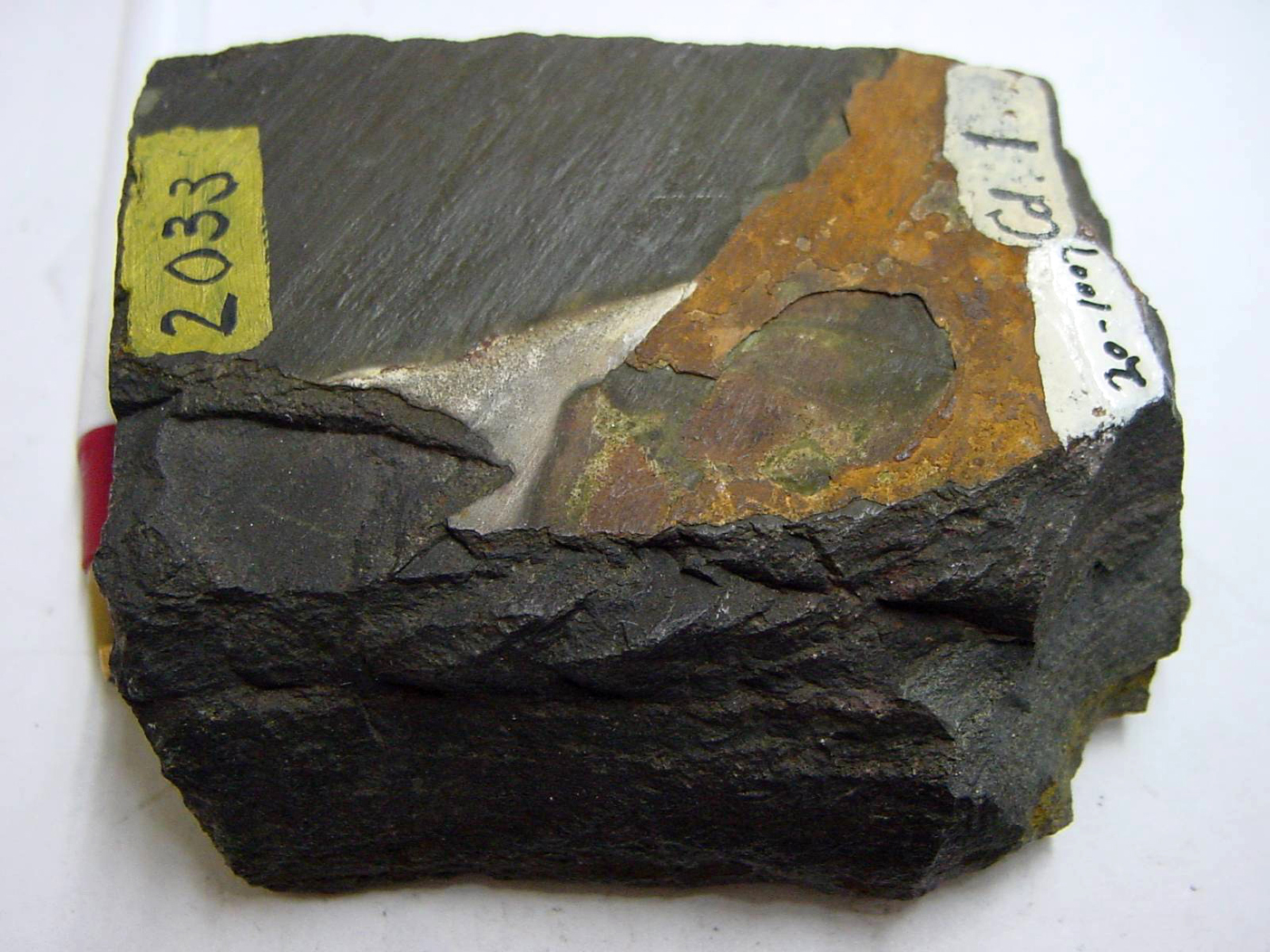 Greenockite. Pen for scale. Mineral collection of Bringham Young University Department of Geology, Provo, Utah